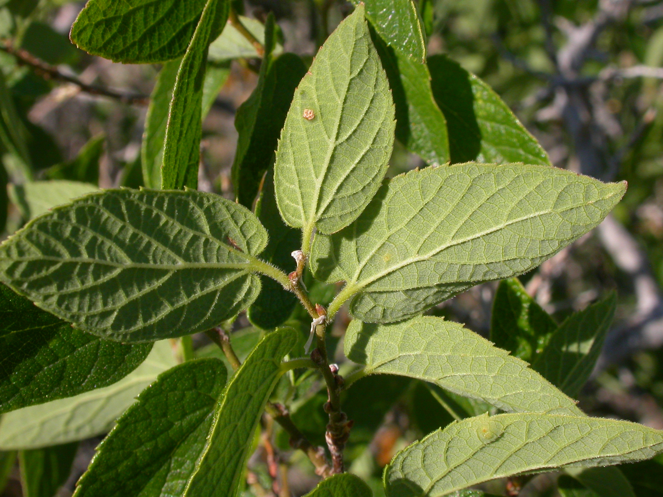 the leaf blades are asymmetric at the base and often apically and the net venation is prominent especially on the lower surface